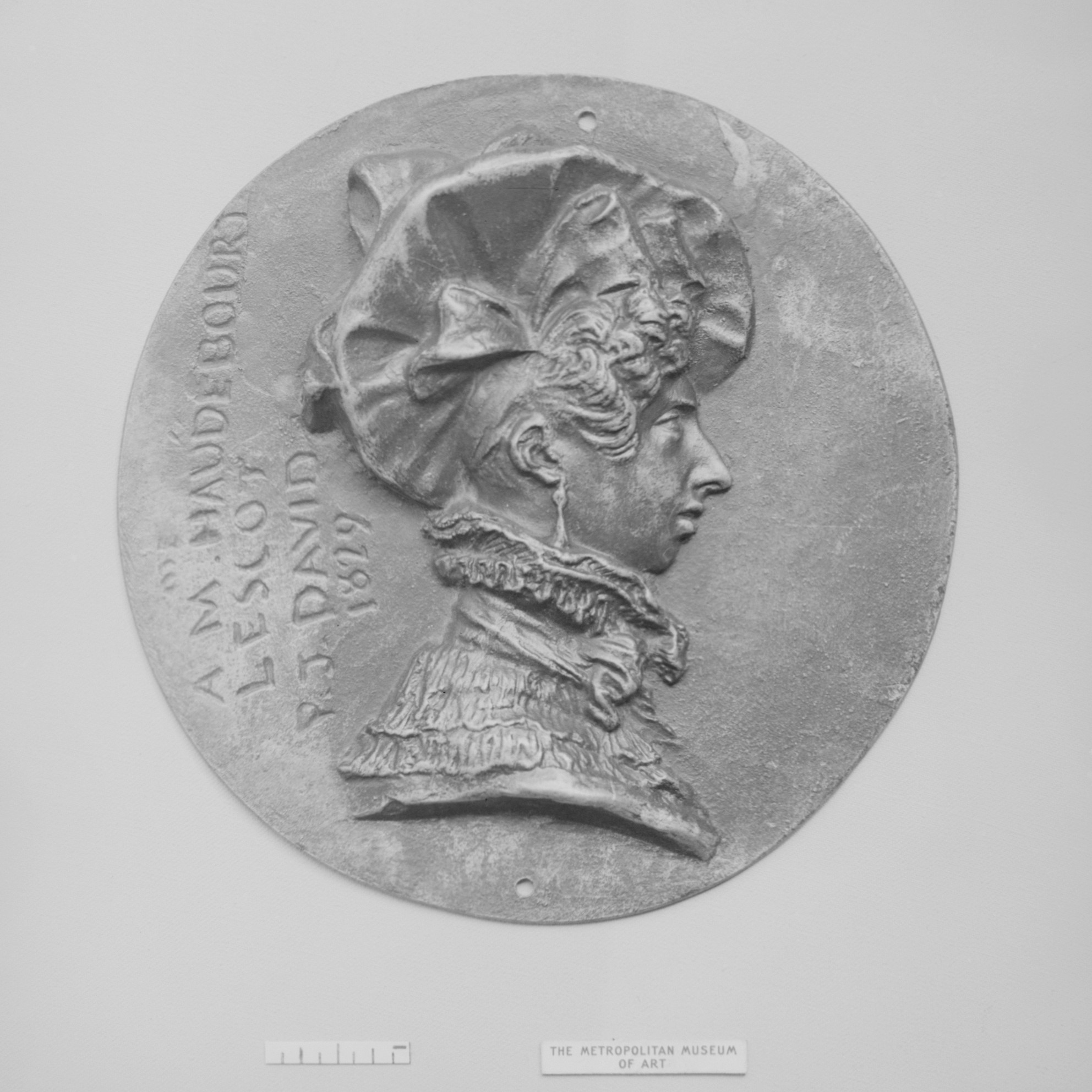 French; Medallion; Medals and Plaquettes